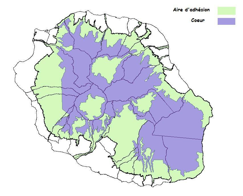 Map of the core area (violet) and buffer zone (green) of Reunion National Park.